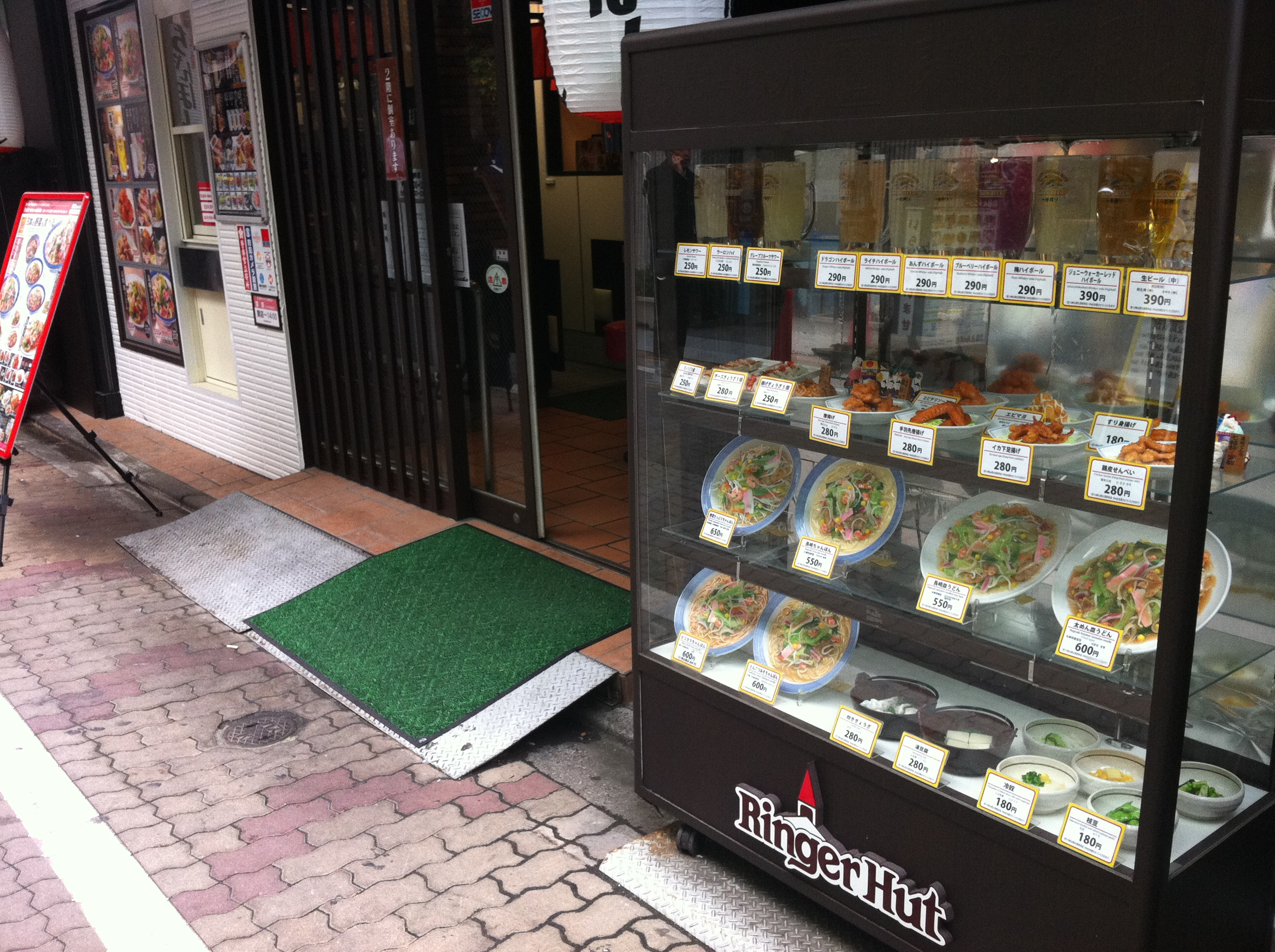 Ringer Hut in Ueno